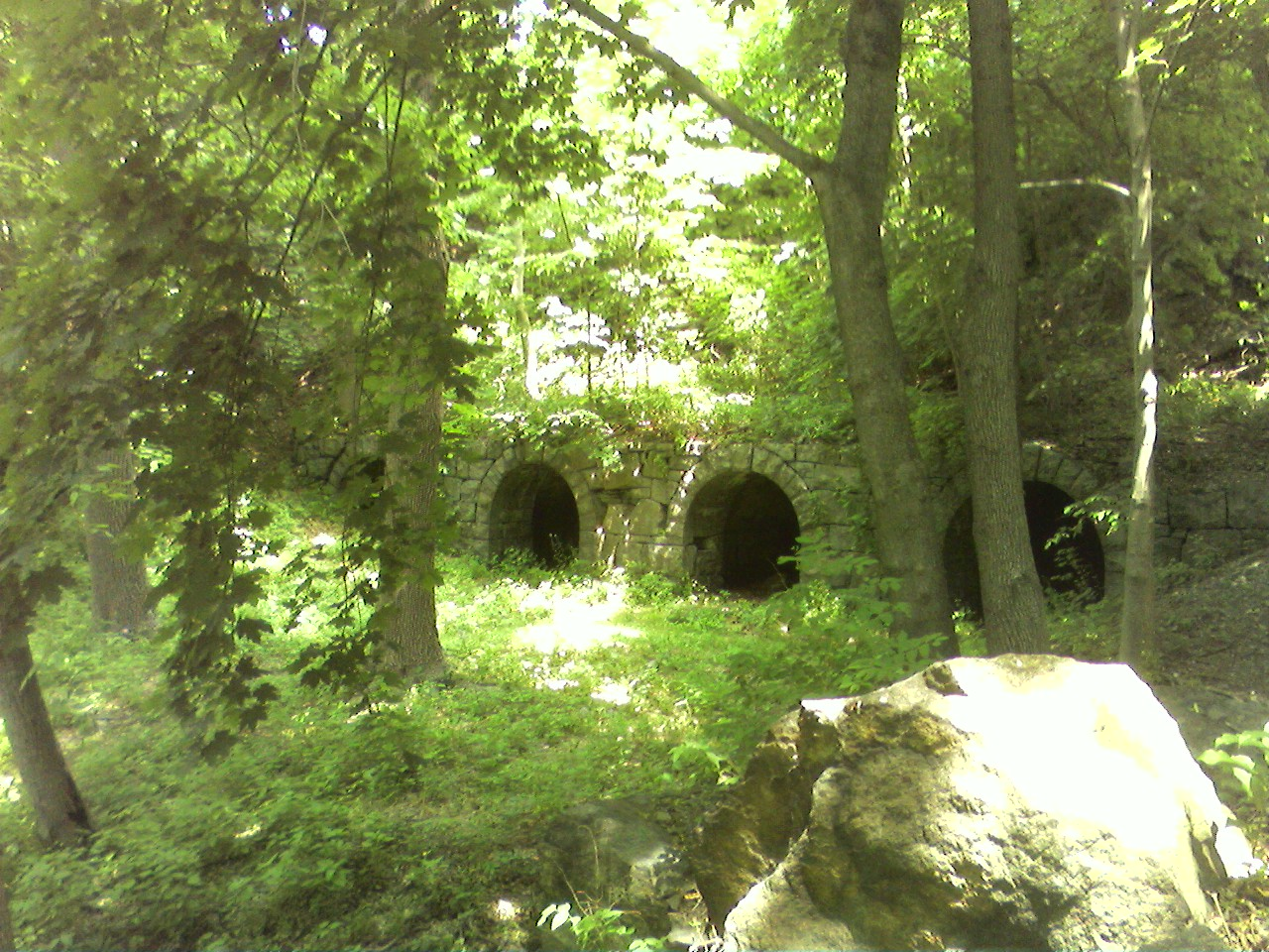 Boonton Iron Work Ruins, Boonton, NJ Photo by Michel Zadoroznyj 2006